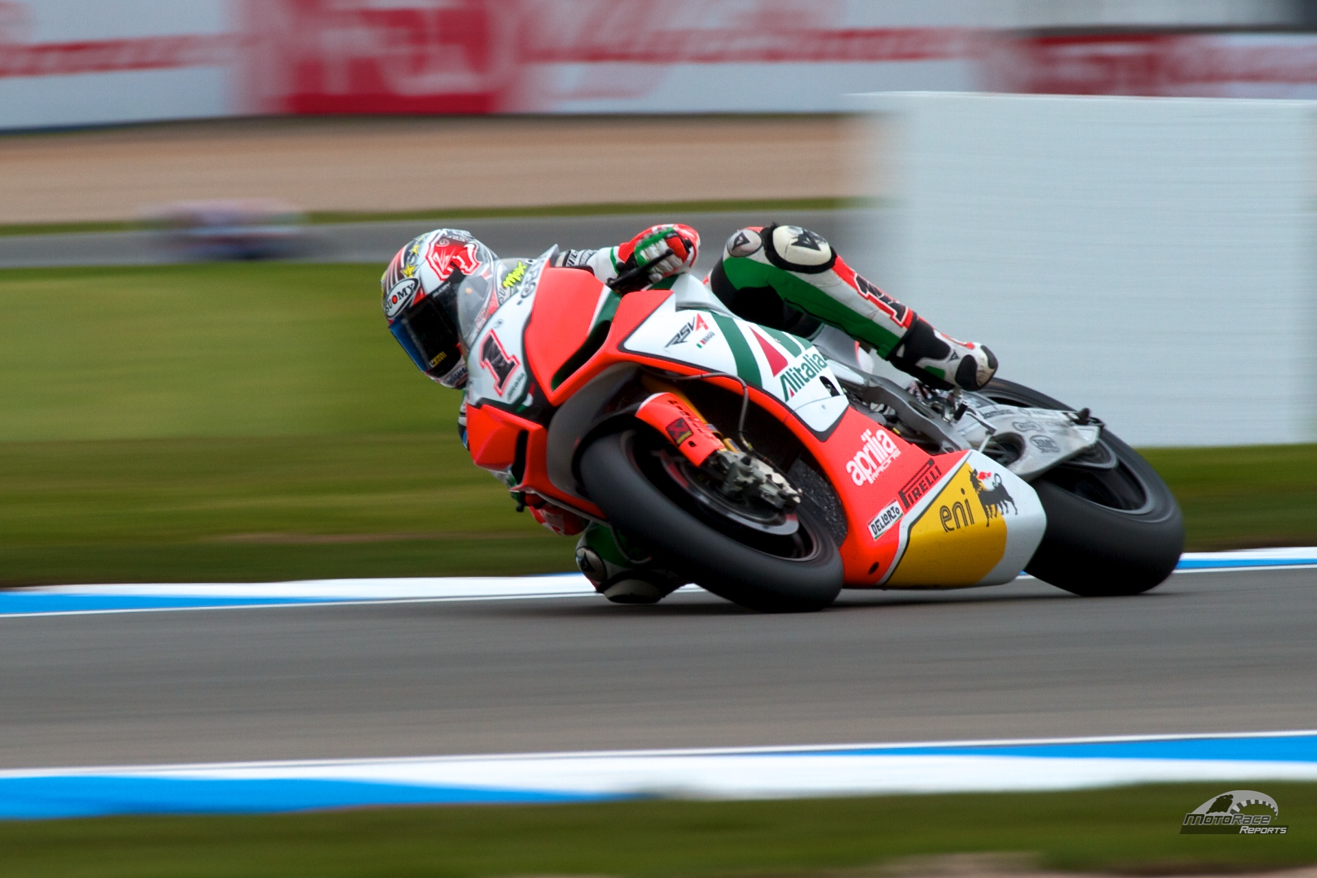 Max Biaggi, Aprilia Alitalia Racing - Aprilia RSV4 Factory in 2011 World Superbike Donington Park round